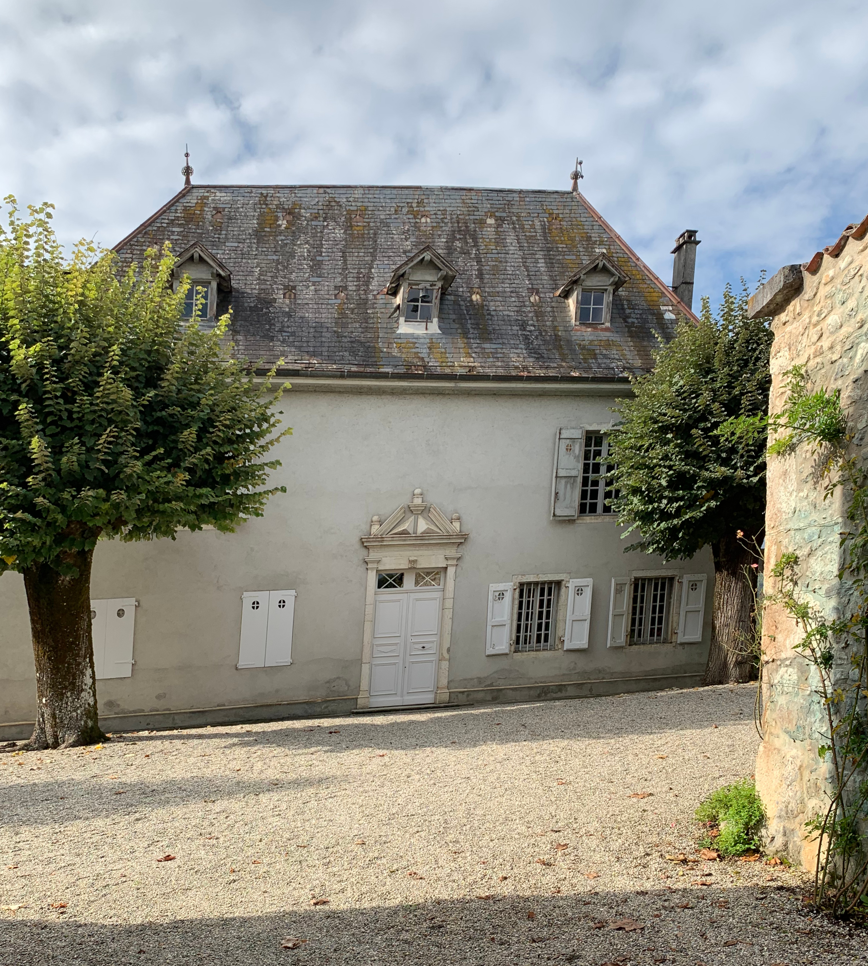 Gertrude Stein's house (Billignin).